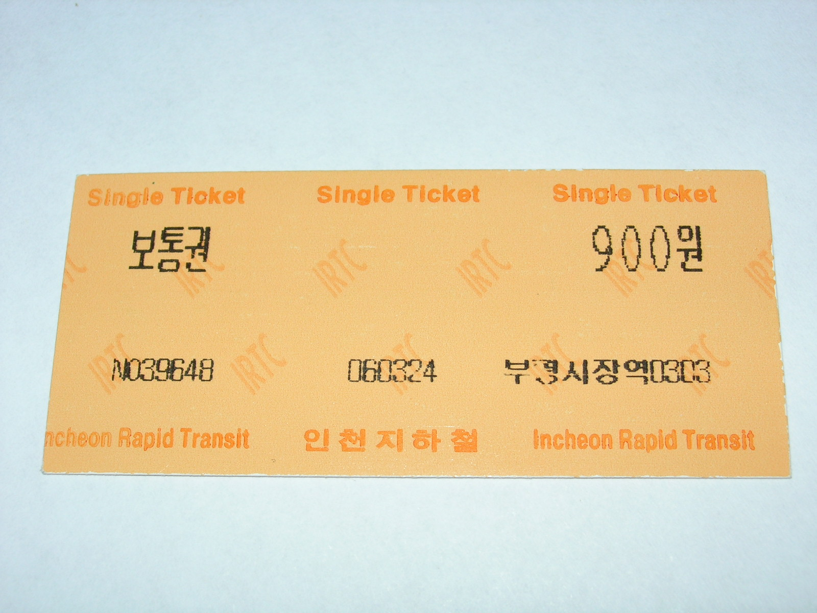 Incheon Subway ticket from ATM.